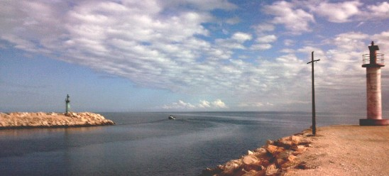 Two lighthouses at the entrance of the port of Gabes (Tunisia)